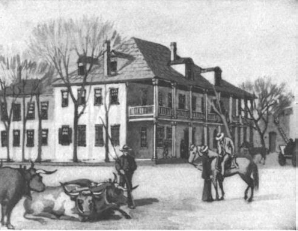 An artist's rendering of the "Old Capital" in Houston, Texas, located at the corner of Main Street and Texas Avenue.